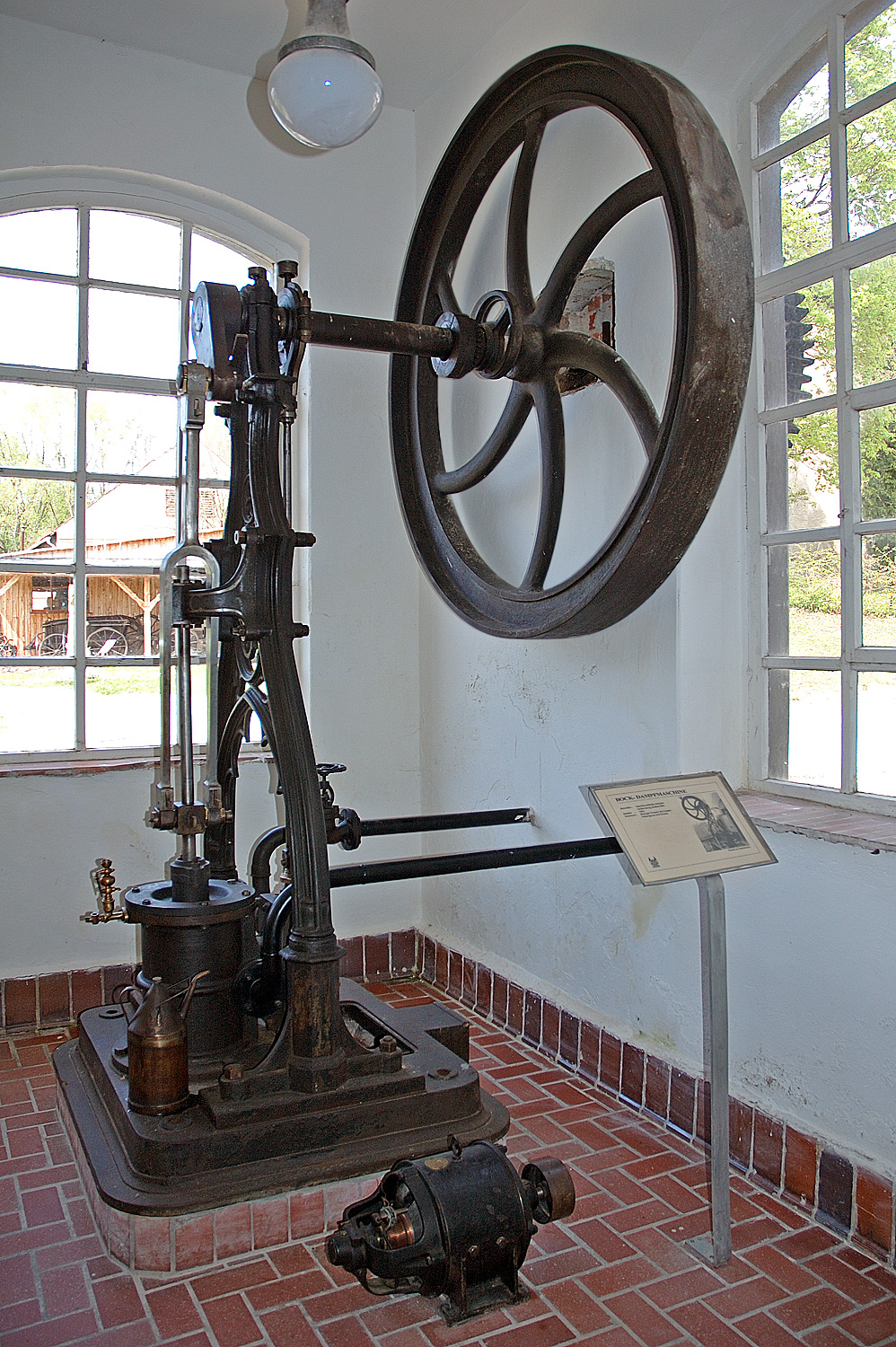 This image shows a steam machine. In German it is called a "Bock-Dampfmaschine", but I did not found a one-to-one english translation. Help is greatly apreciated.